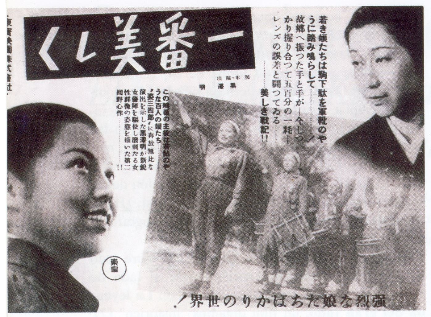 Movie poster for 1944 Japanese movie The Most Beautiful (一番美しく, Ichiban utsukushiku, aka Most Beautifully).